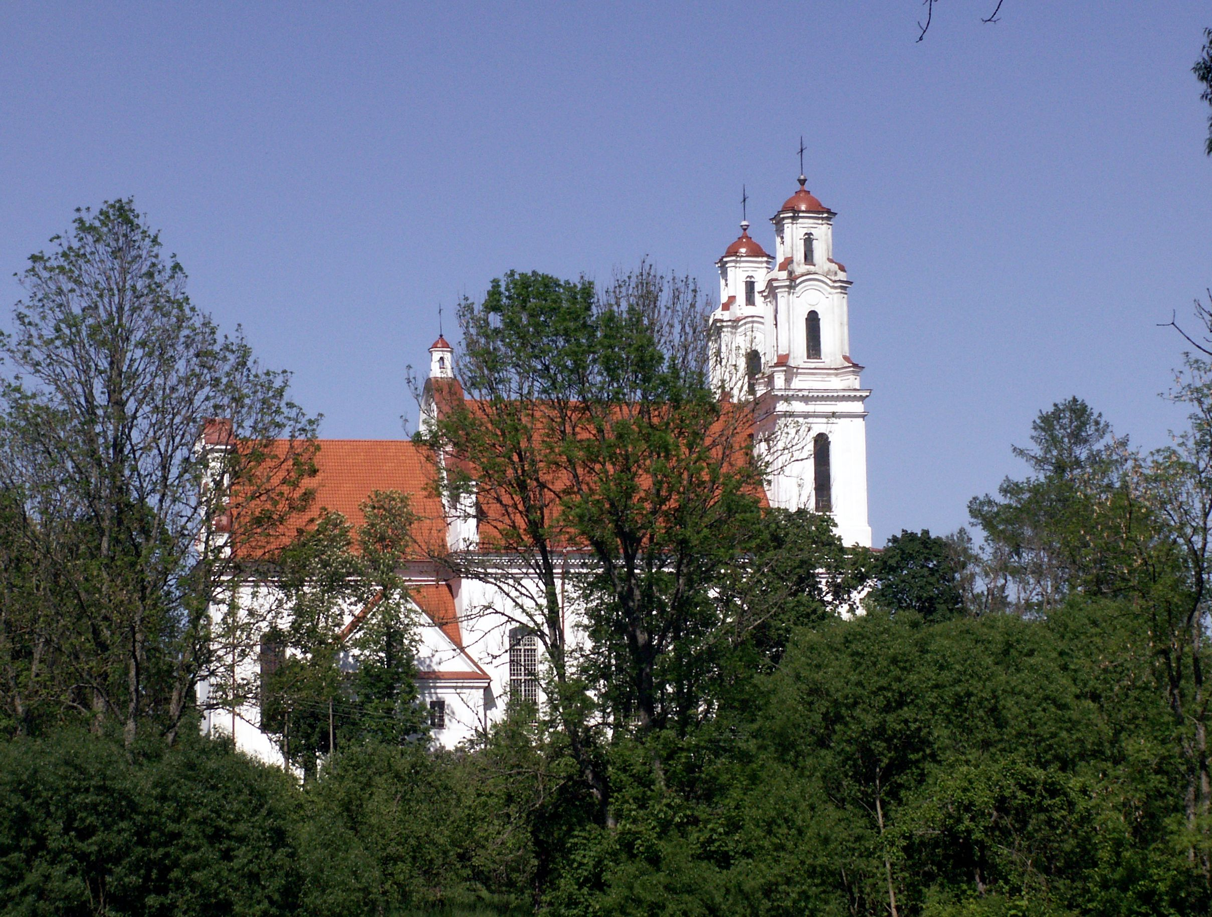 Kurtuvėnai churche, Šiauliai district, Lithuania